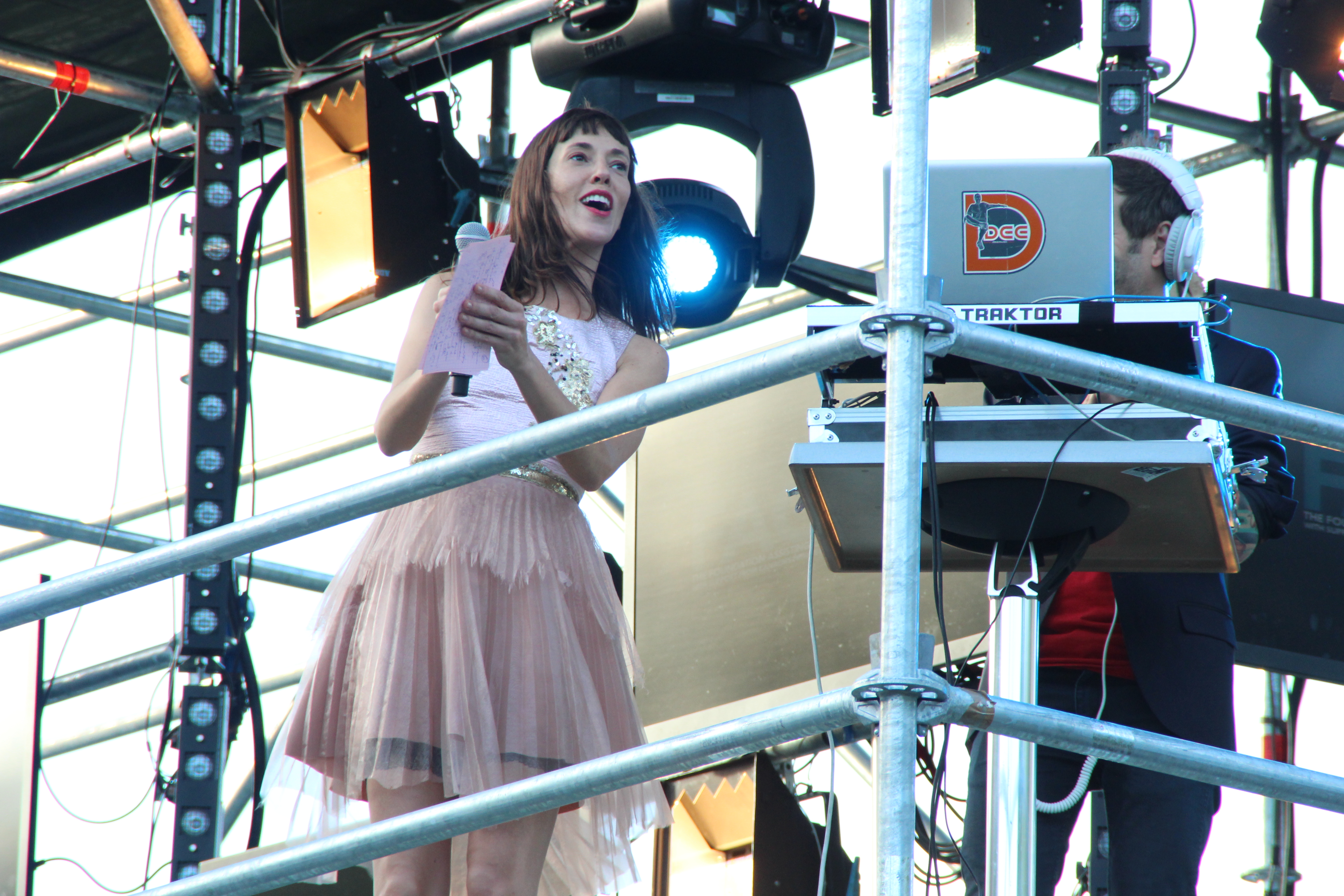 Nuit Boréale 2013 is a concert of several Canadian groups organized June 21, 2013 by the Canadian Cultural Centre during the fête de la musique on the splanade des Invalides in Paris, France.